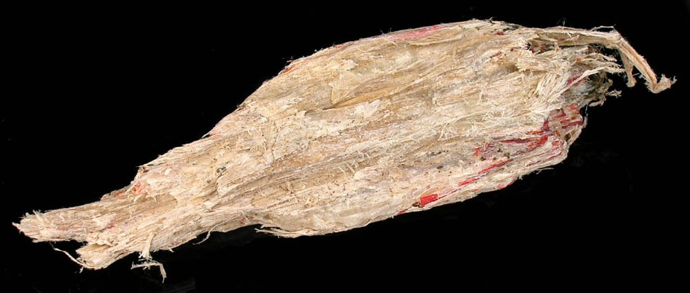 Sussexite Locality: Franklin Mine, Franklin, Franklin Mining District, Sussex County, New Jersey, USA (Locality at ) Size: 6.9 x 2.0 x 1.7 cm. A classic Sussexite specimen of a light pinkish color showing great fibrous form. These specimens are among some of the most easily recognizable minerals from all of Franklin. With over 350 species from this historic mining district, this one was actually named after the county where Franklin the mine is located. Ex. Kosnar Collection.